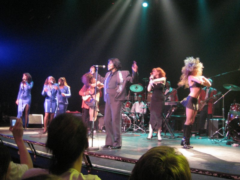 James Brown (2005)